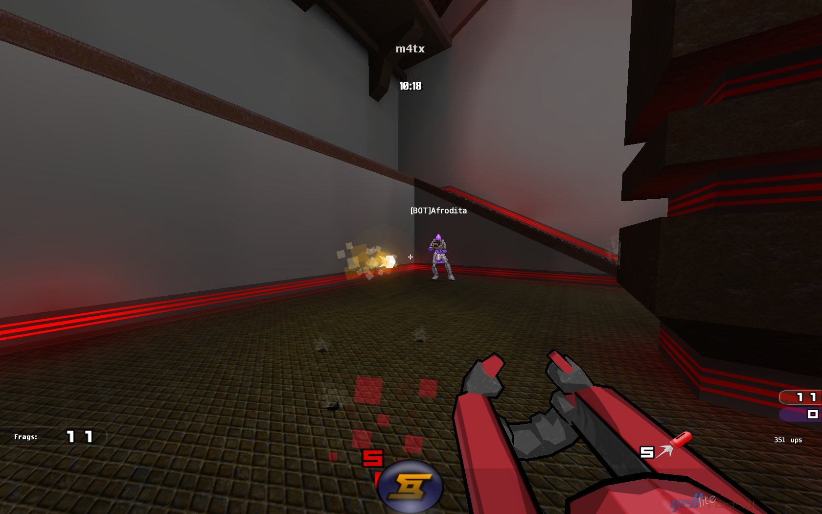 A screenshot from War§ow game.